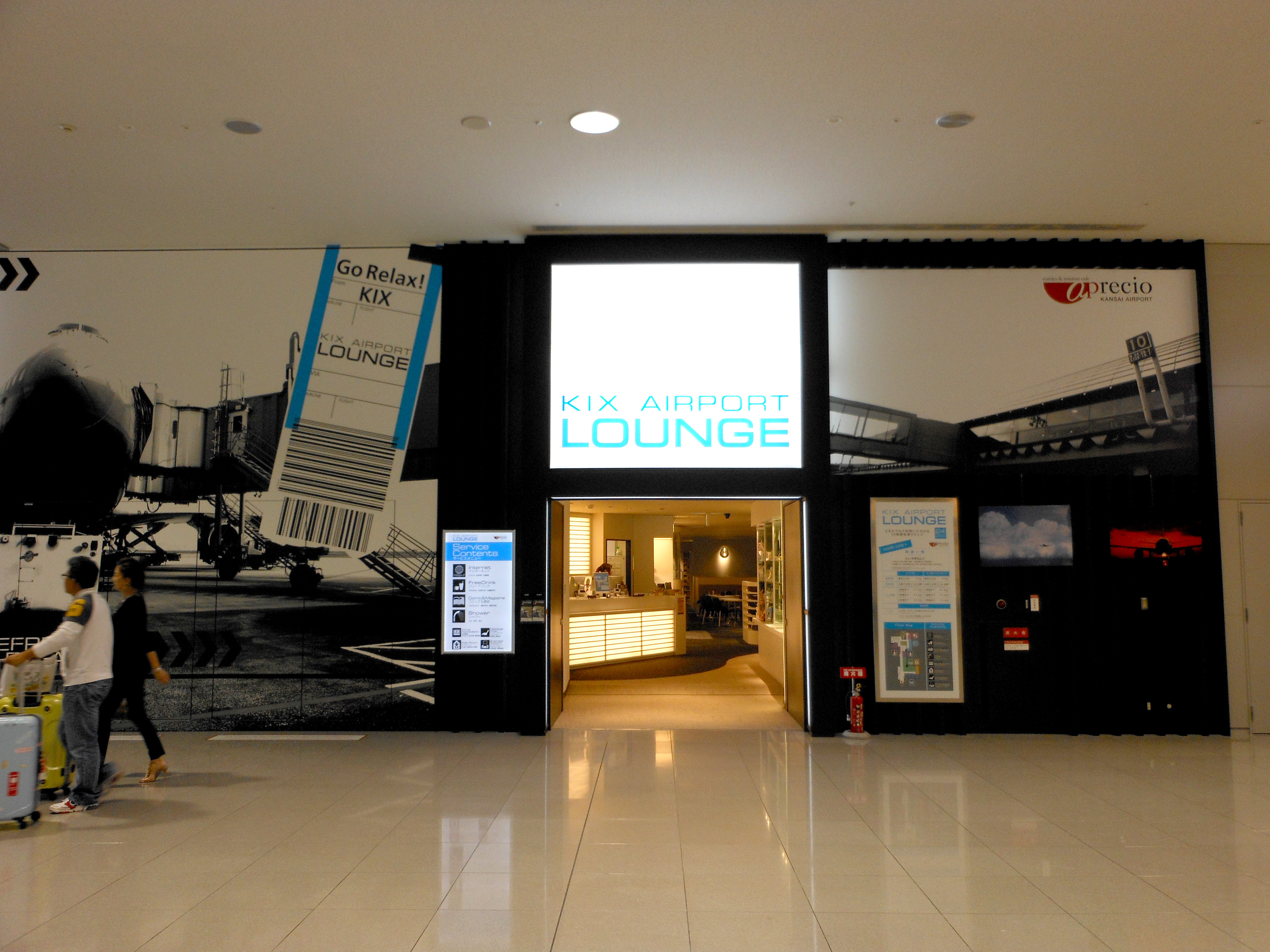 KIX AIRPORT LOUNGE, Izumisano-City Osaka Japan.